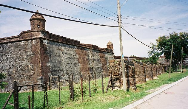 Fort of San Fernando of Omoa Picture was uploaded on 18-03-2007 by user: Betapictures